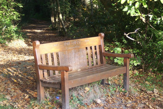 Bench on the Greensand Way in Stubbs Wood This bench is on the long distance path leading from Ide Hill towards Sevenoaks Weald. It leads along a track called Lady Amherst's Drive. The bench is dedicated to Tom Emery 1925-99, a Countryman at heart. The bench was donated by members of Environment Bromley (aka EnBro).